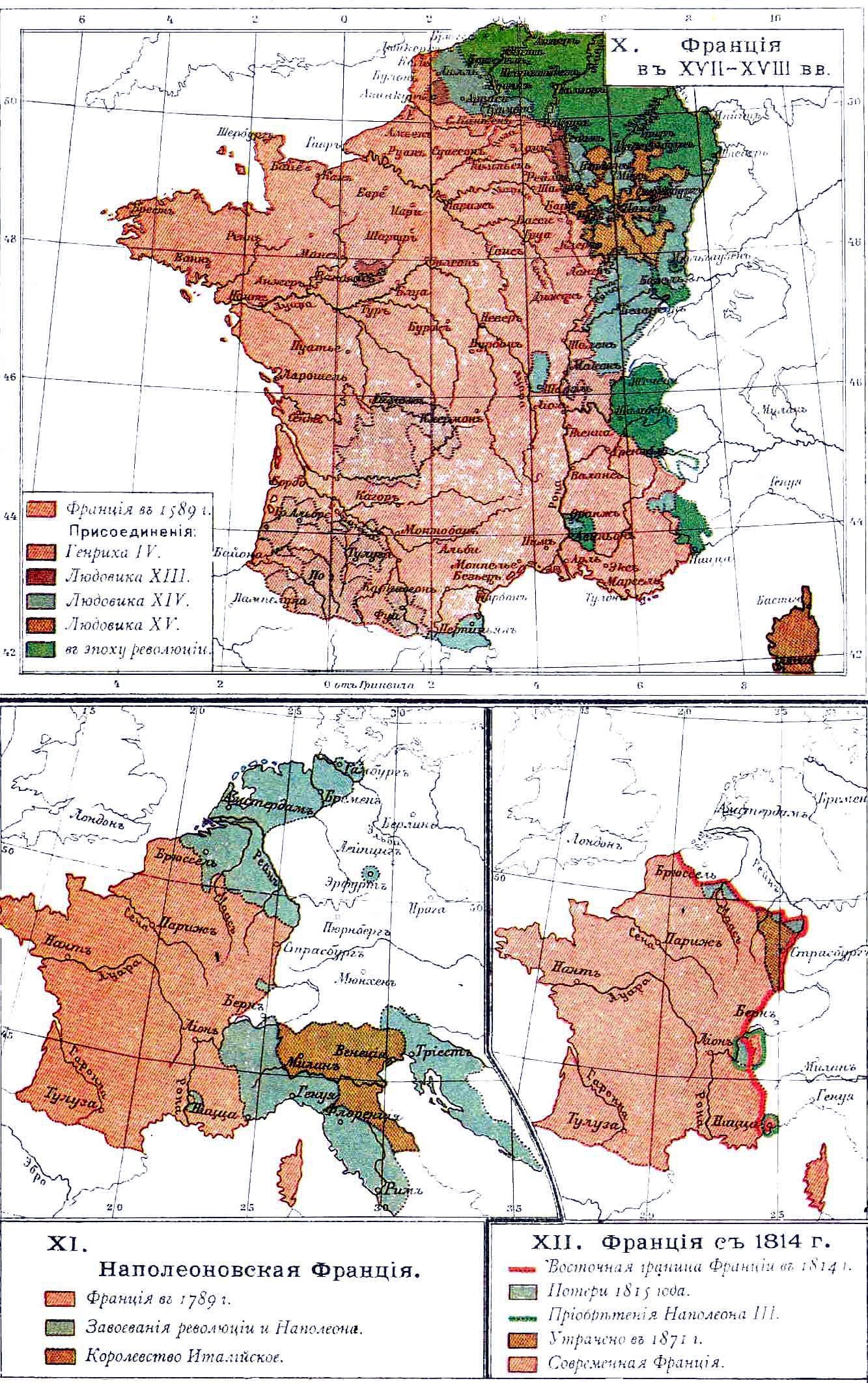 Illustration from Brockhaus and Efron Encyclopedic Dictionary (1890—1907)